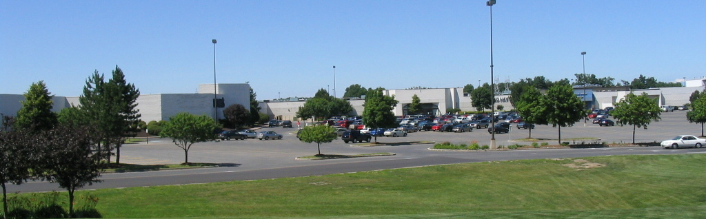 photo of Great Northern Mall in Clay, NY